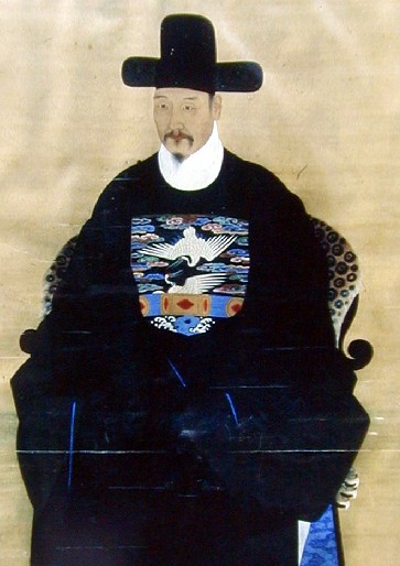 Portrait of Park Munsu(1691-1756), royal secret inspector of Joseon Dynasty, Korea